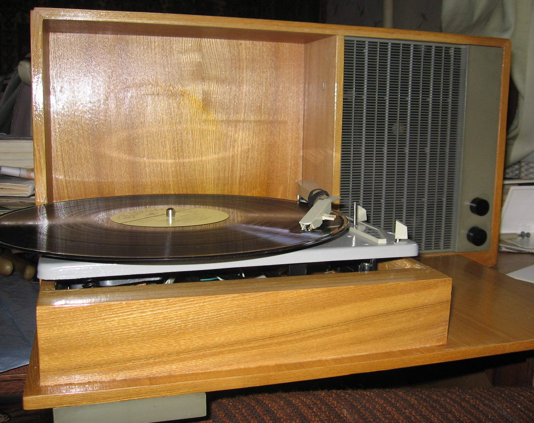 Электрофон серии «Каравелла»